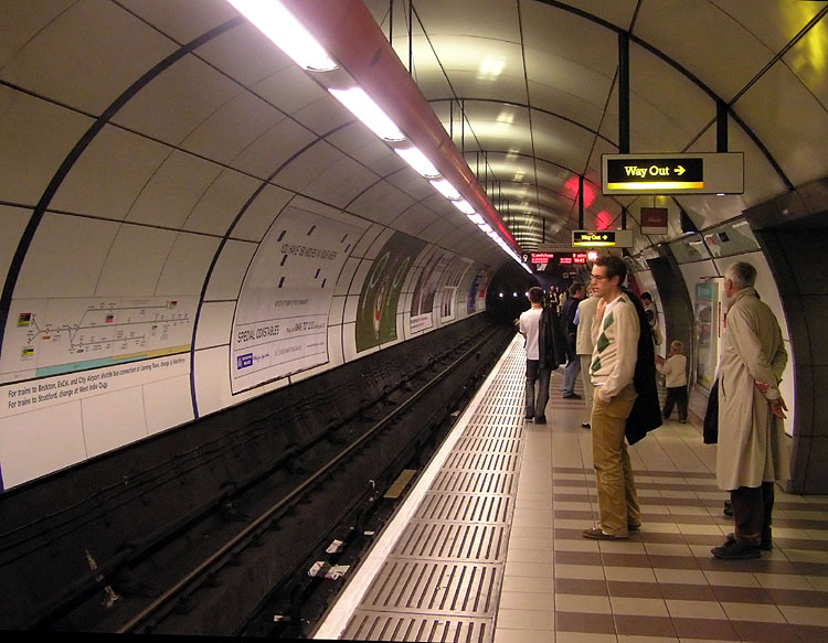 Underground terminus of the Docklands Light Railway at Bank station. Taken by Adrian Pingstone in November 2004 and released to the public domain.